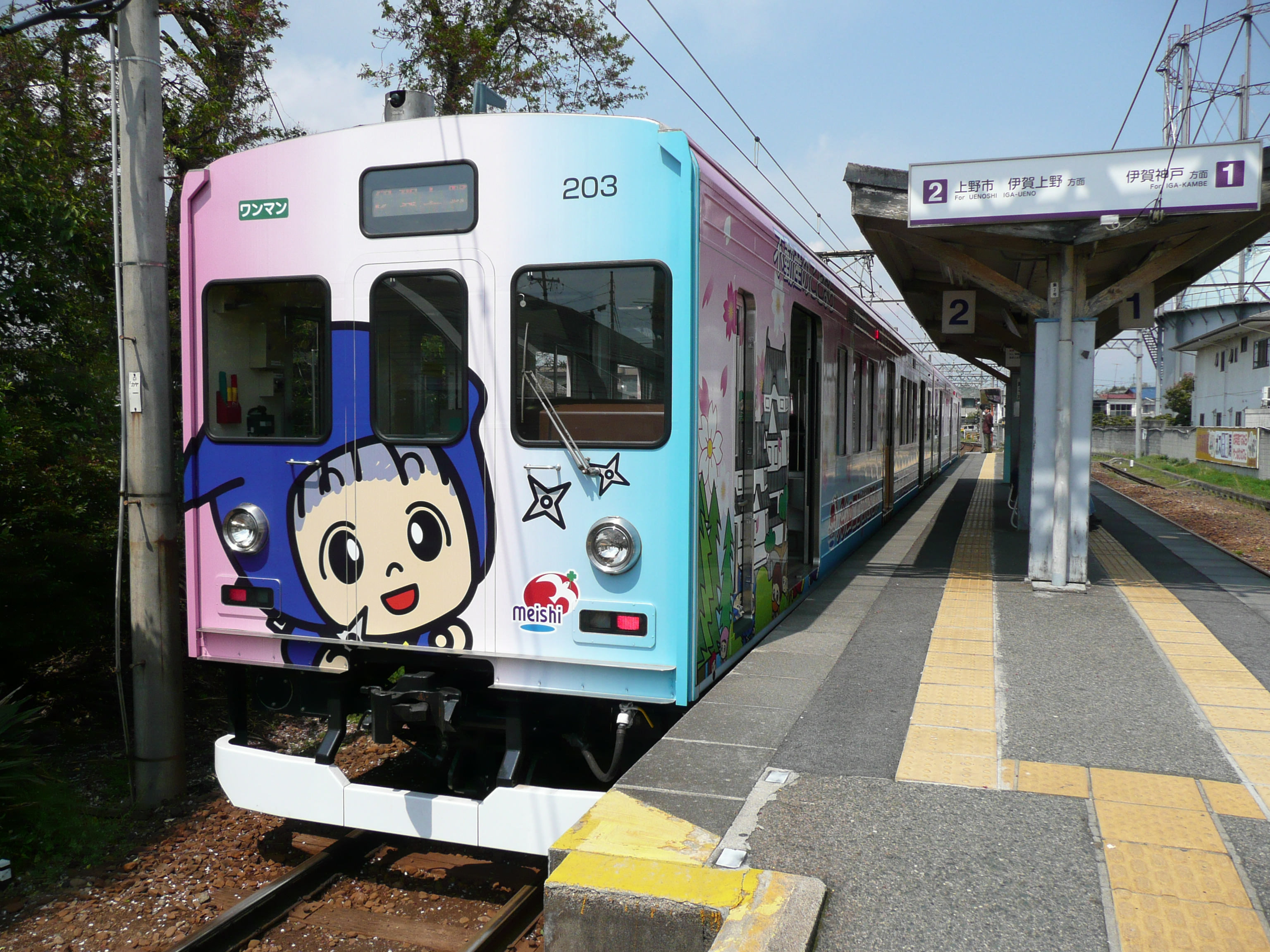 This is a picture of Kayamachi station,Iga Railway Iga Line.